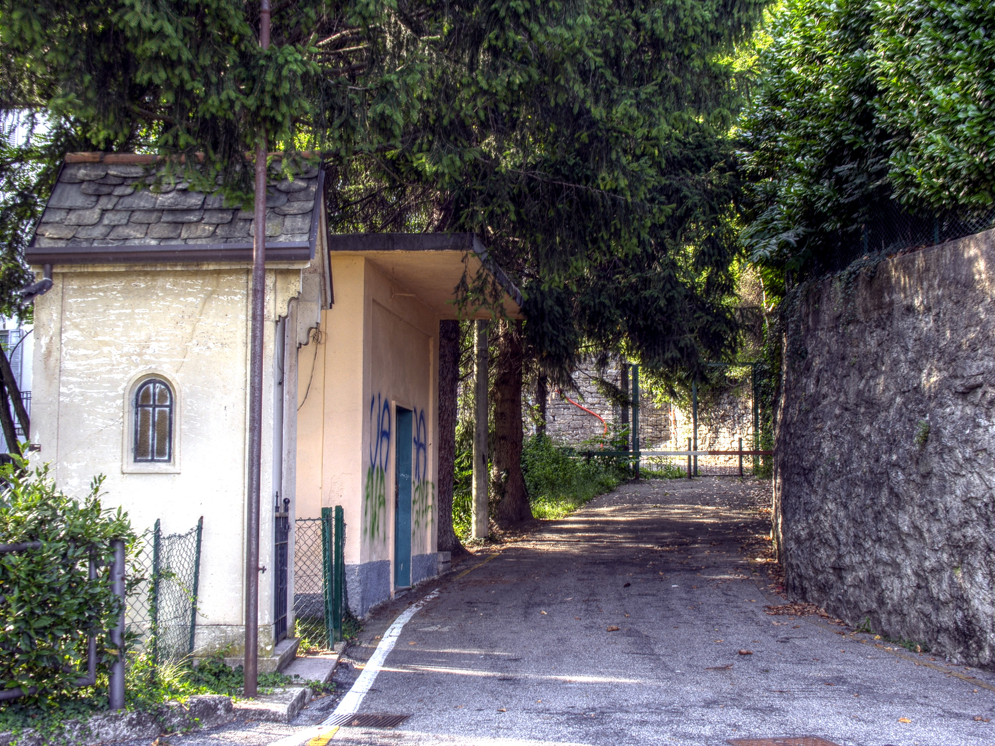 The Maslianico - Roggiana custom on the Swiss - Italian border taken from the Italian side.